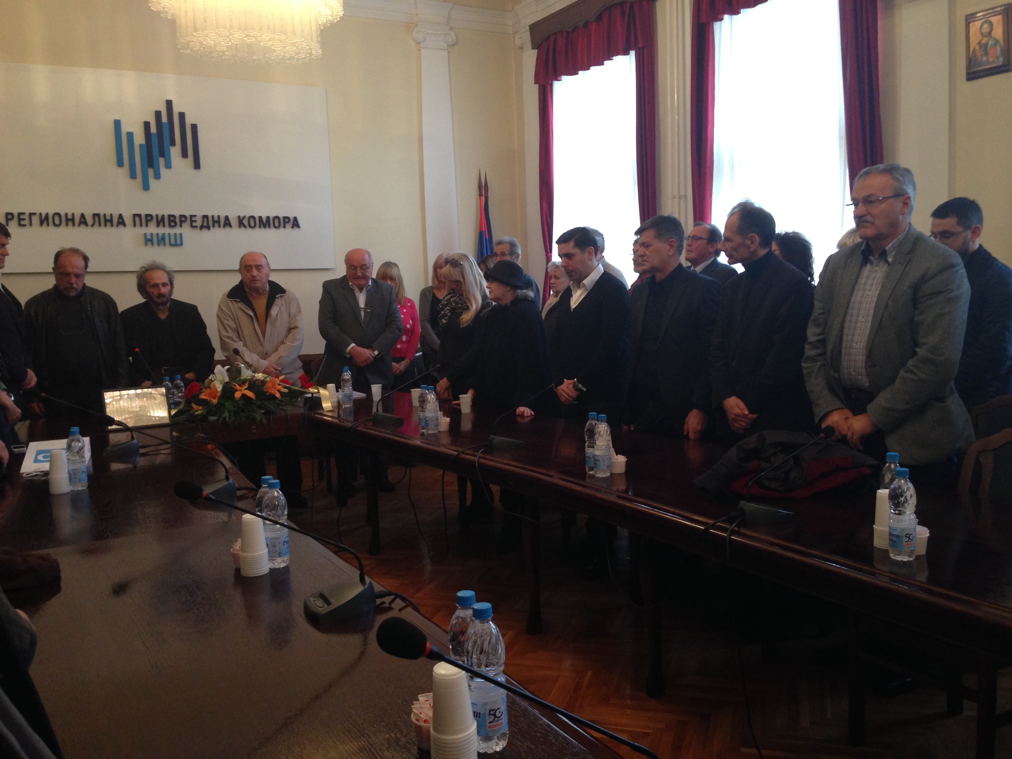 The commemoration of the Serbian cartoonist and painter Aleksandar Blatnik, Nis, Serbia 21.10.2016. Srpski (latinica): Komemoracioni skup u Nišu, povodom smrti velikog srpskog karikaturiste, slikara i arhitekte. 21.10.2016.